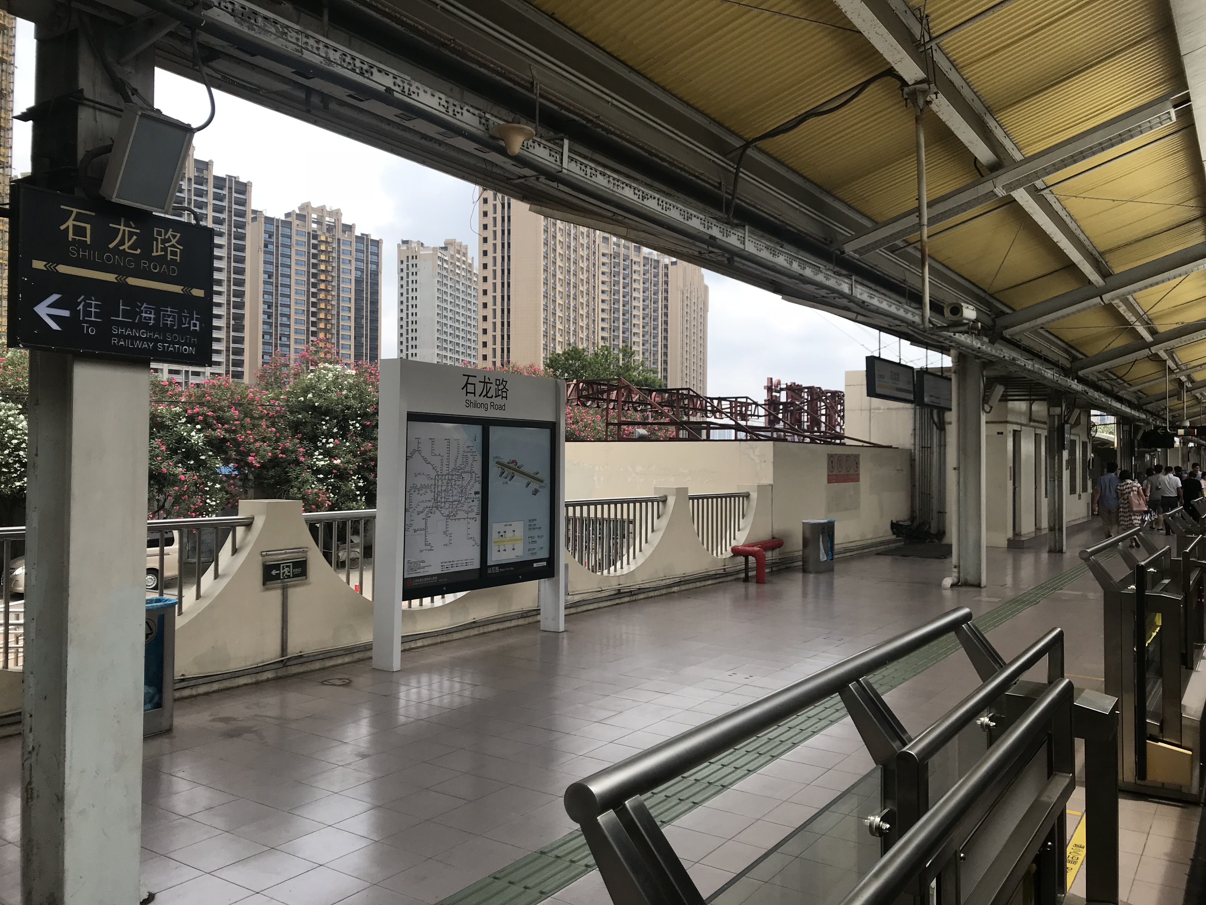 201806 Platform of Shilong Road Station